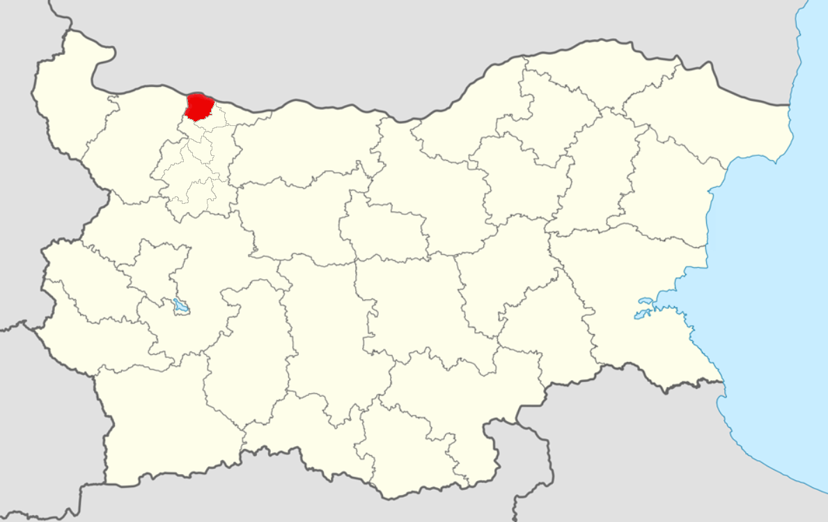 Location map of Kozloduy Municipality within Bulgaria and Vratsa Province.